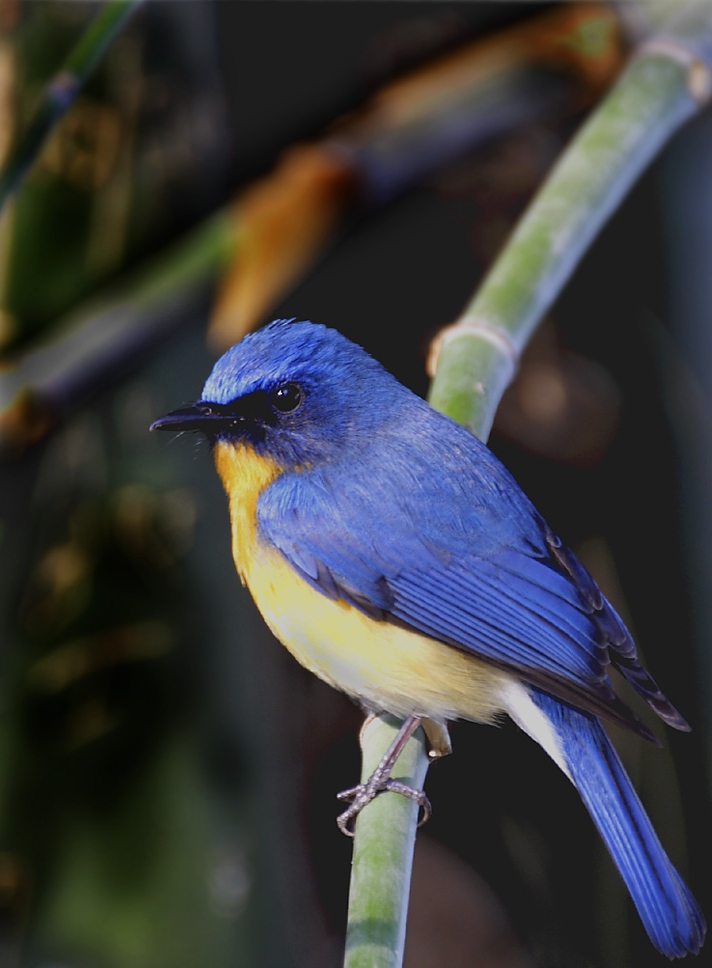 Tickell's Blue Flycatcher (Cyornis tickelliae)